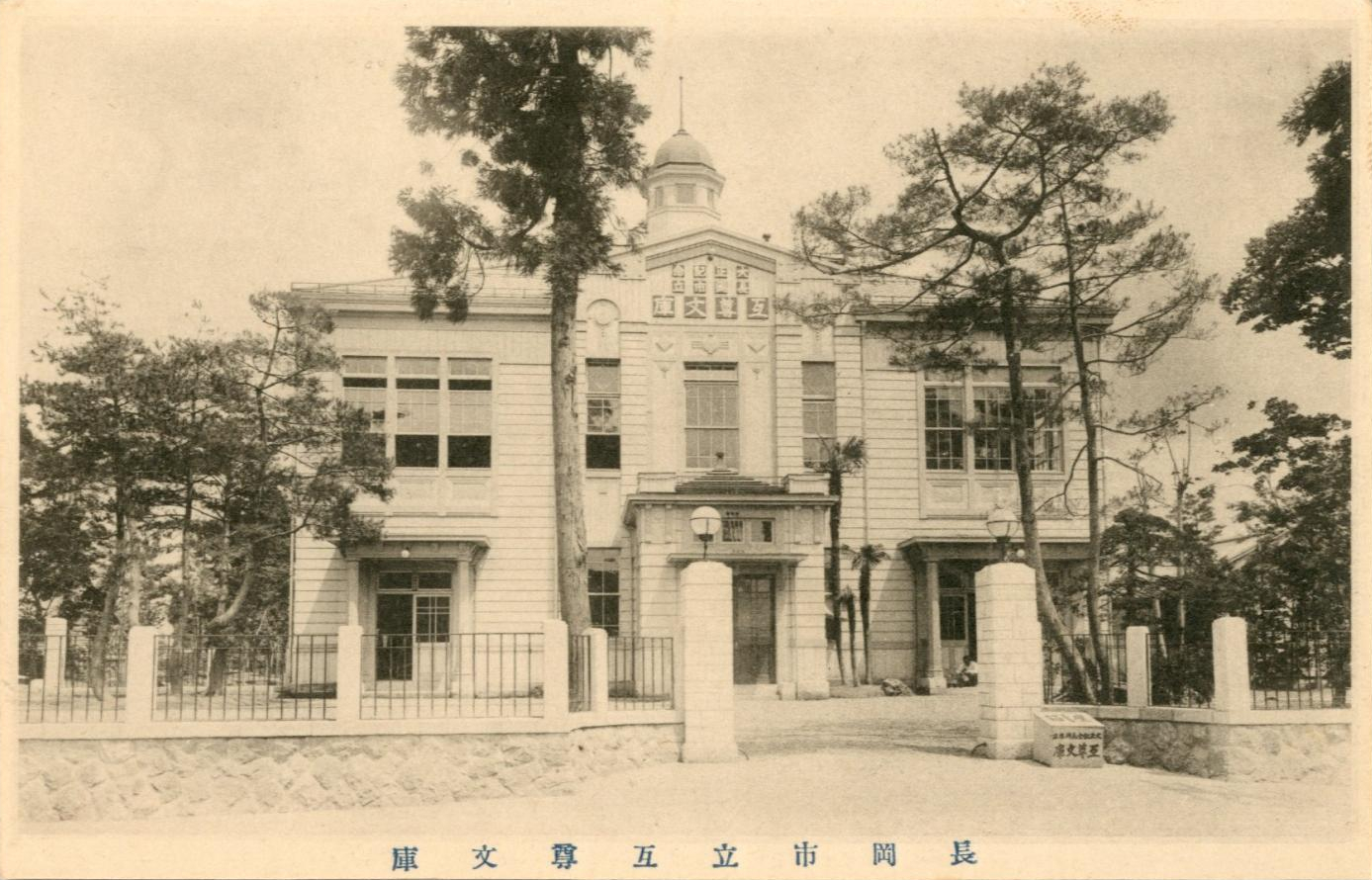 Postcard of the Nagaoka City Goson Bunko Library in early Shōwa era